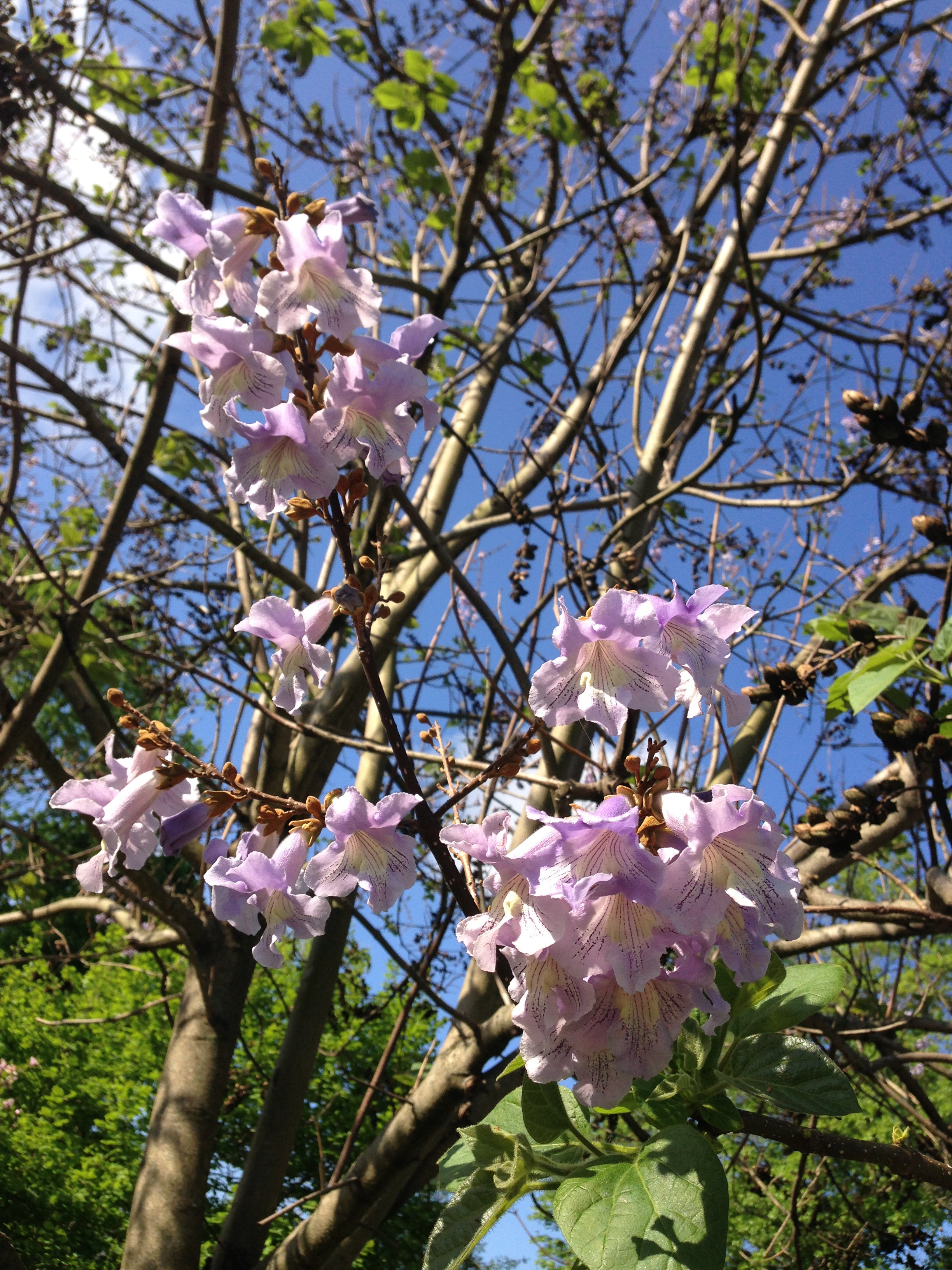 Royal Empress Tree blossoms along Federal City Road in Ewing, New Jersey